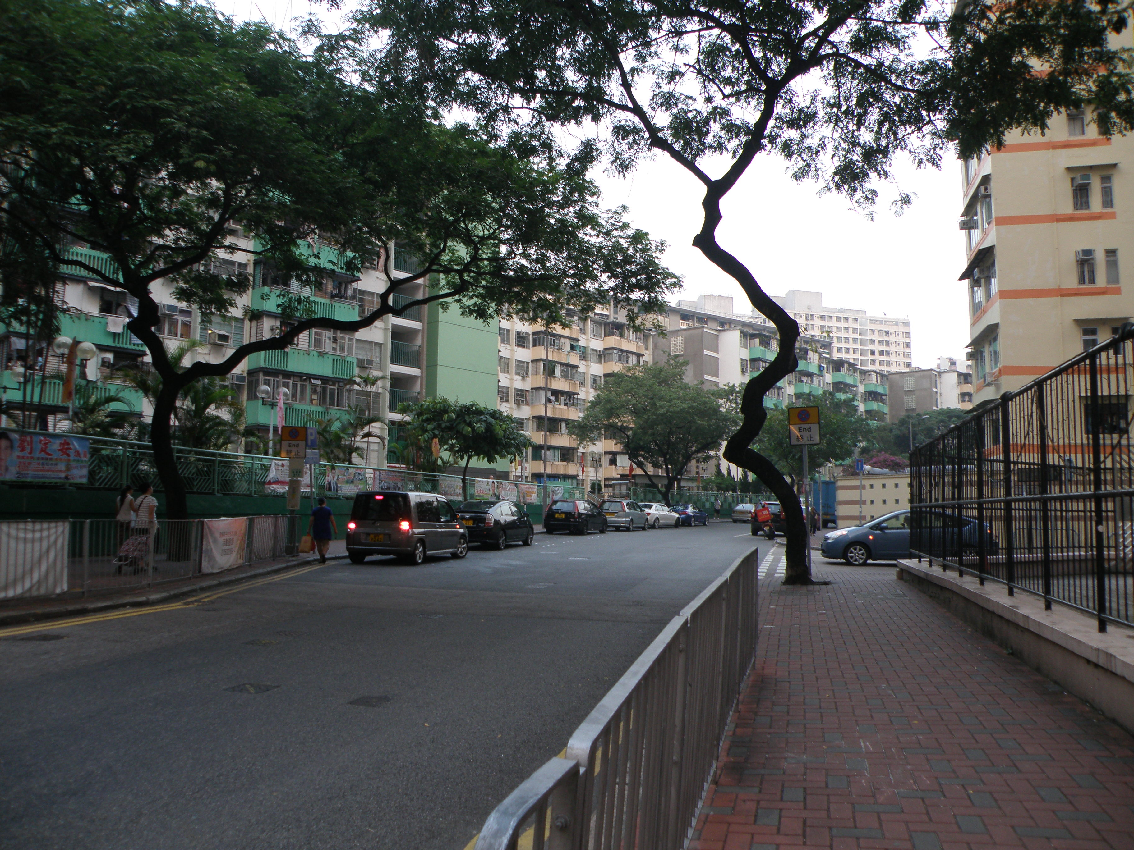 Yuet Wah Street in Kwun Tong, Hong Kong.